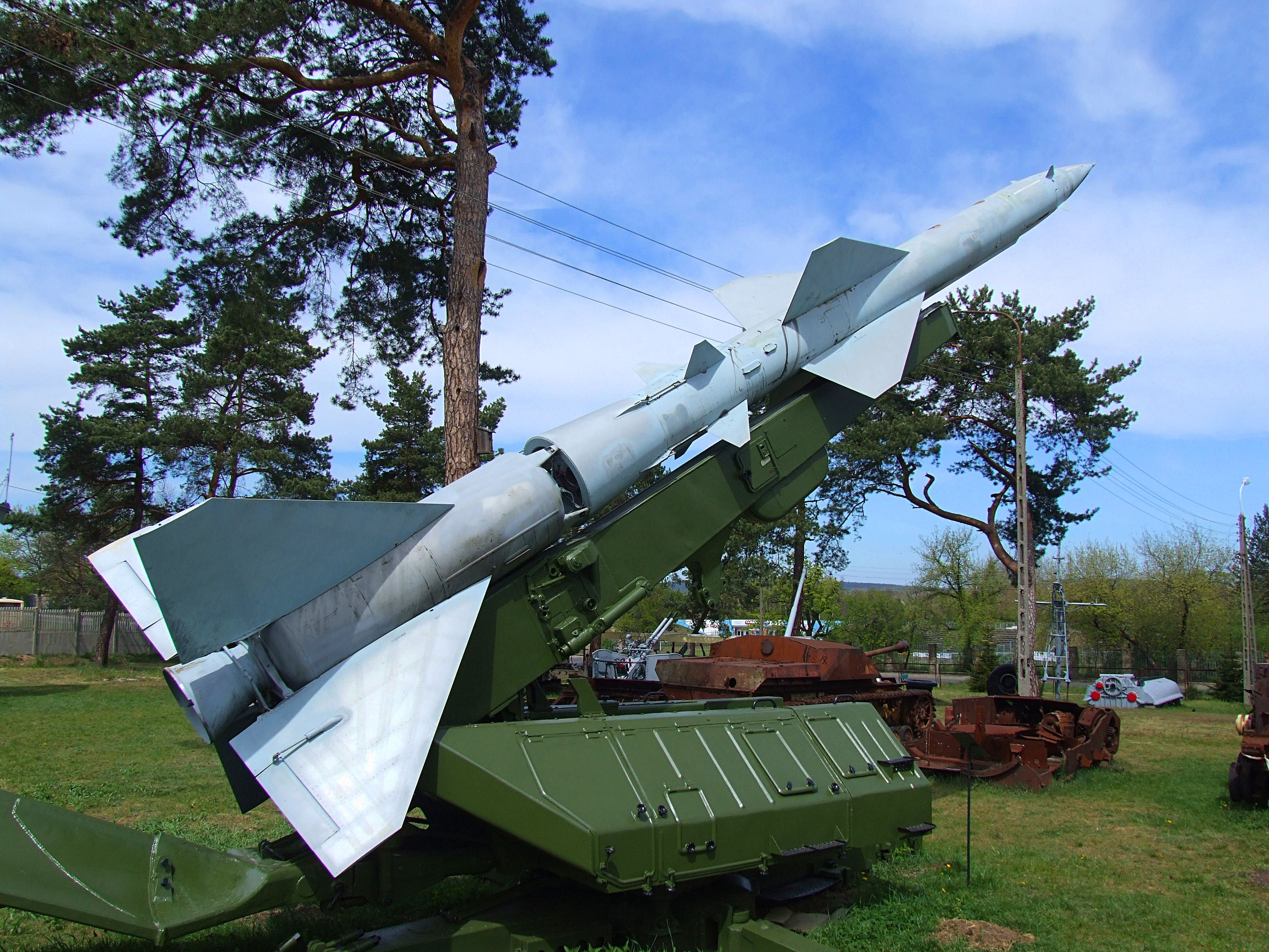 This picture was taken in The White Eagle Museum in Skarżysko-Kamienna